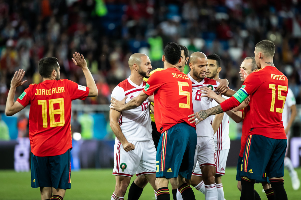 Spain-Morocco match, Group B, 2018 FIFA World Cup